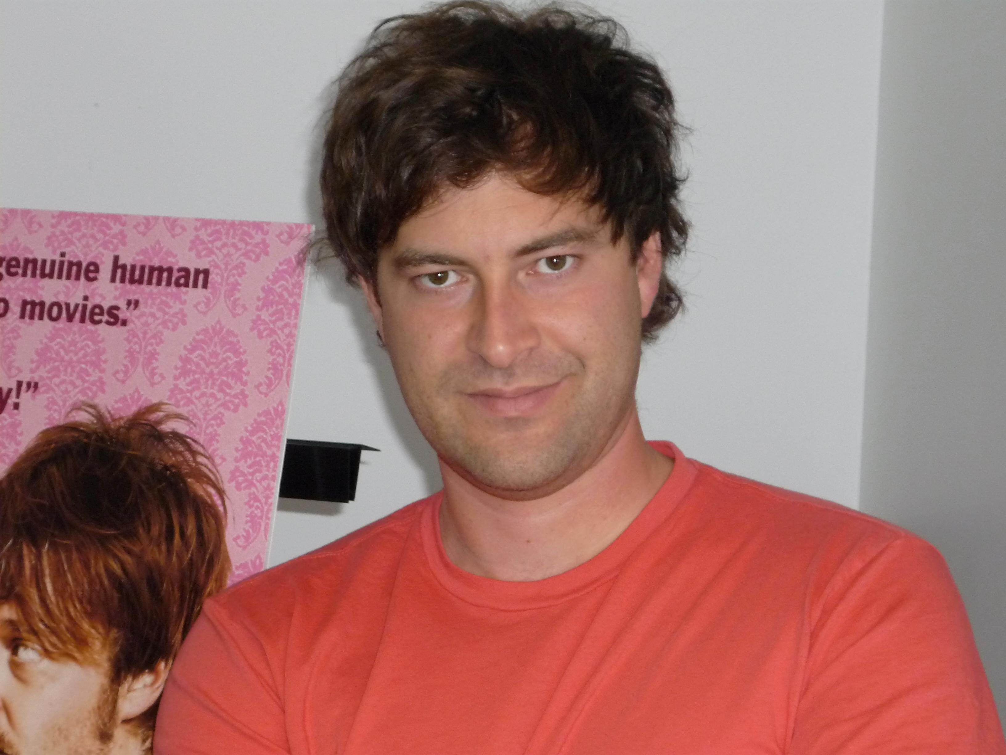 Actor, writer and film producer Mark Duplass at "Humpday" premiere, 2009.